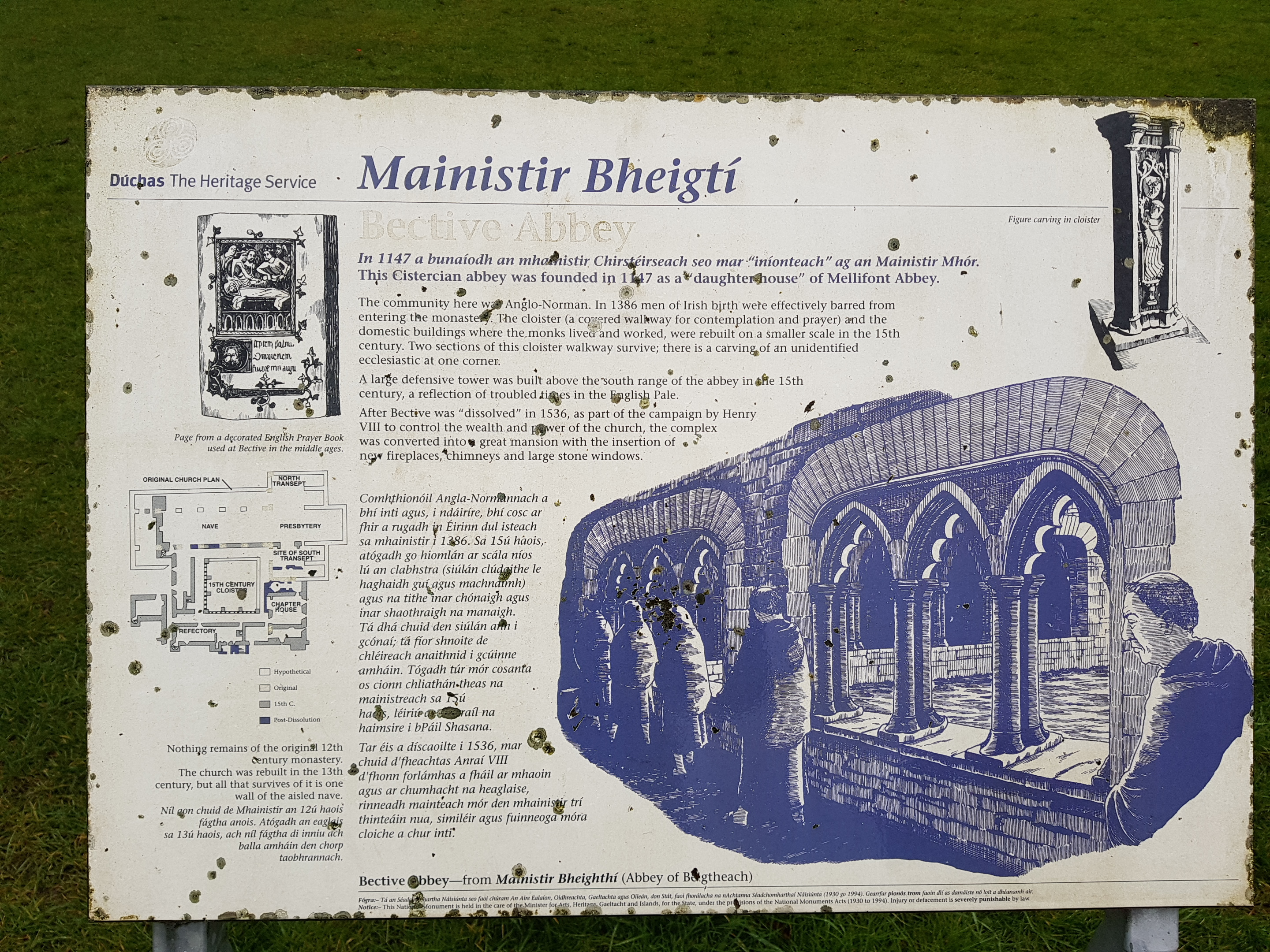 Bective Abbey